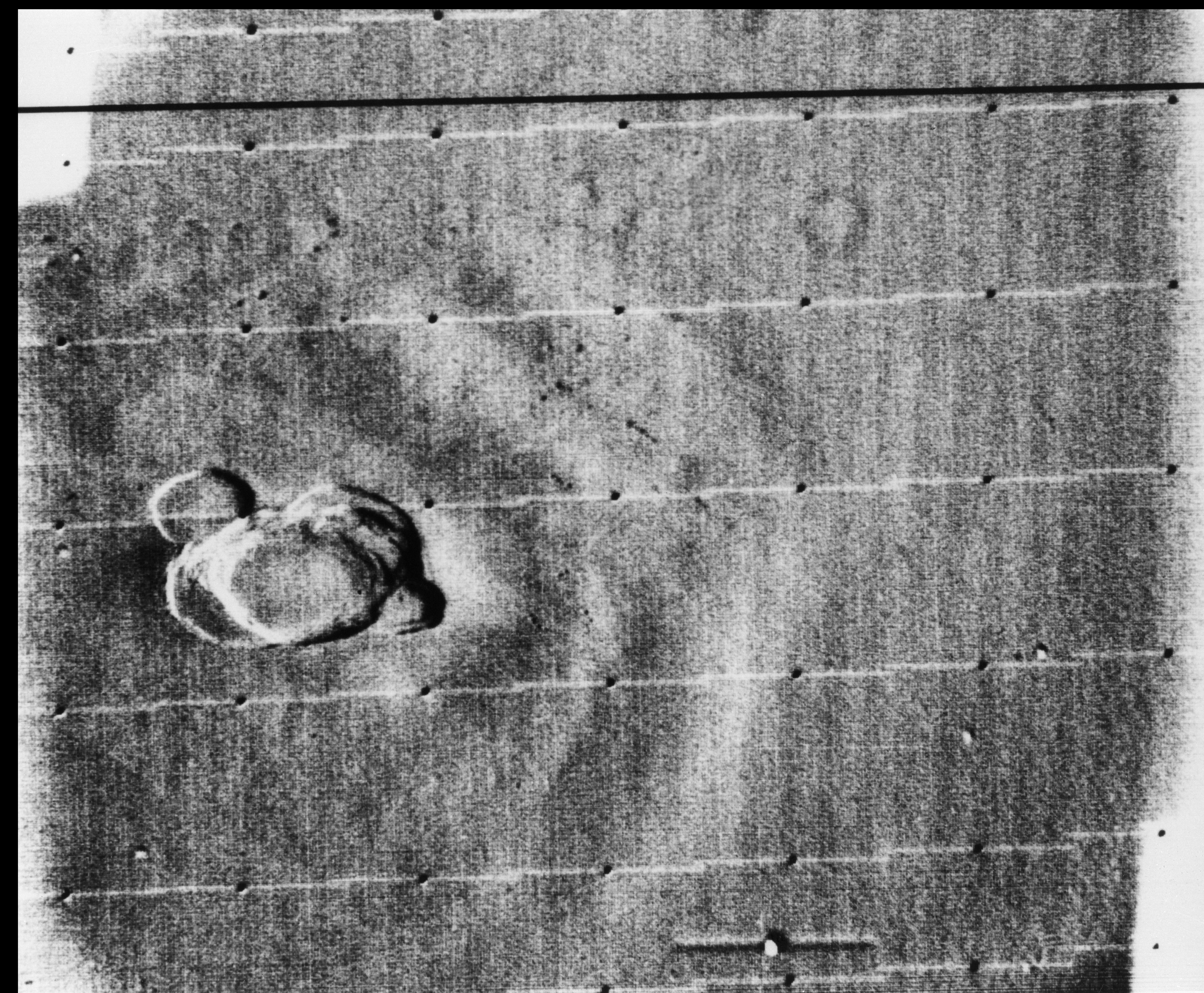 Mariner 9 image of Ascraeus Mons